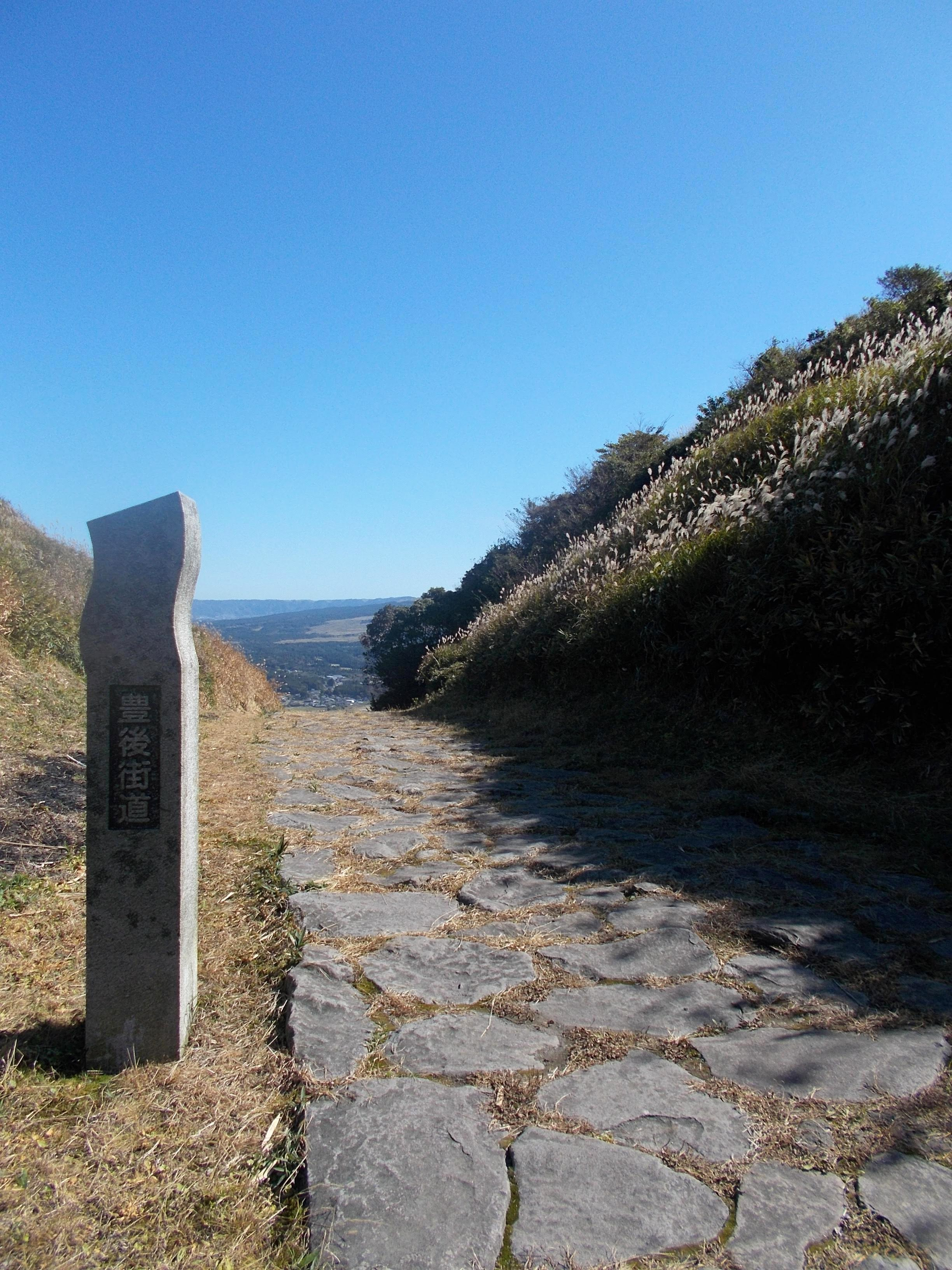 Bungo Kaido Futae Pass Cobblestones, Aso, Kumamoto, Japan